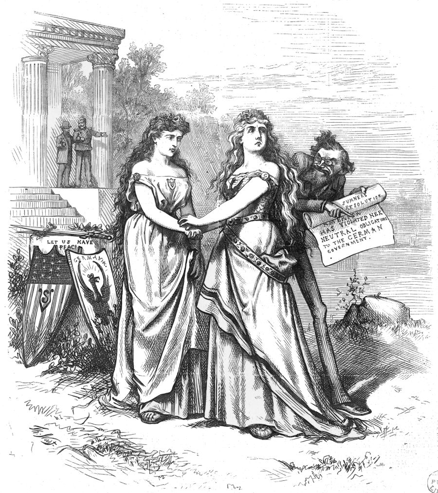 An offended Germany ignores Carl Schurz's insinuations that her friend the U.S. government violated neutral obligations by selling arms to France during the Franco-Prussian War.